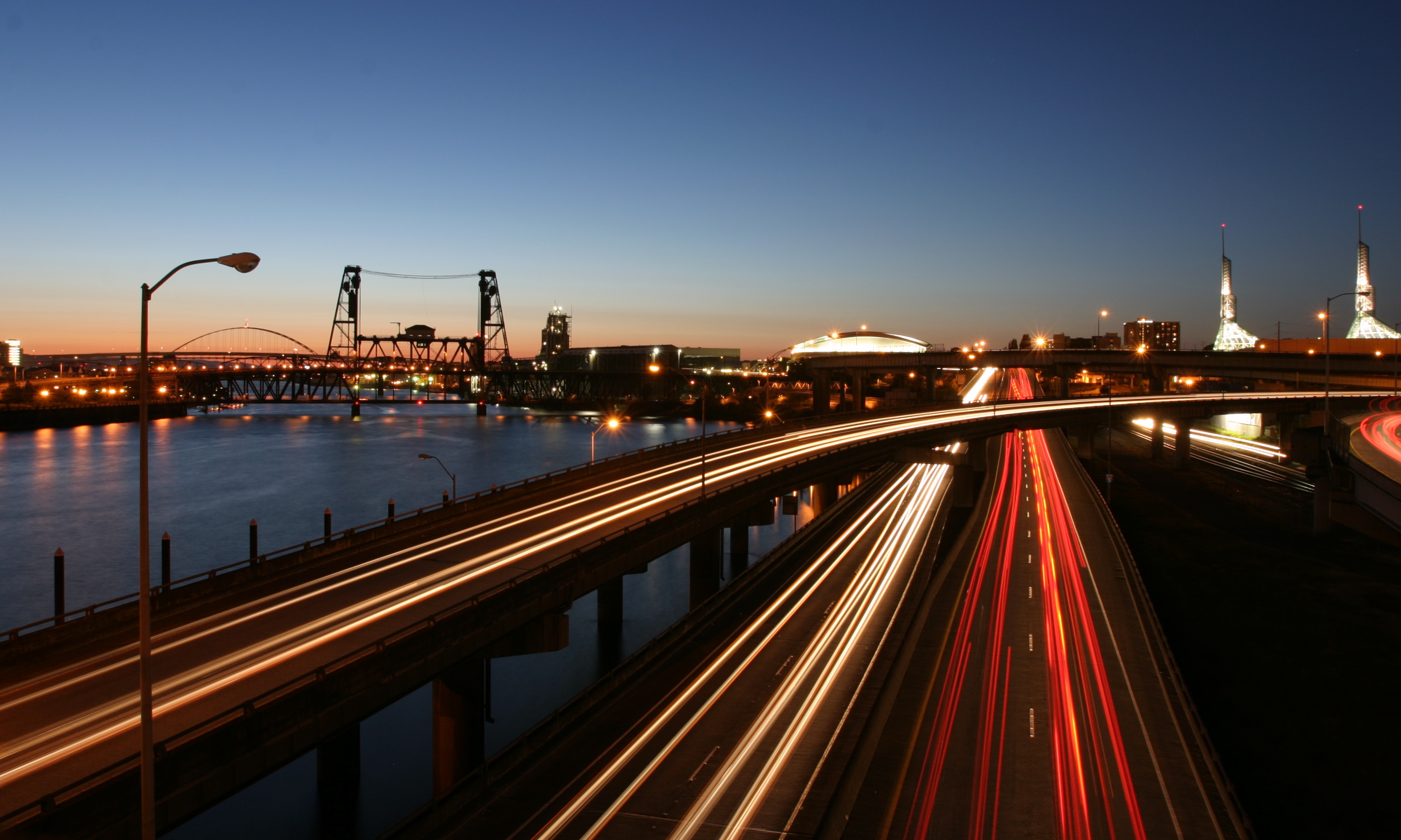 Portland at dusk, above Interstate 5. The Willamette River is to the left, with the Fremont Bridge in the distance and the Steel Bridge closer. The Rose Garden Arena is in the center. The Oregon Convention Center is to the right.